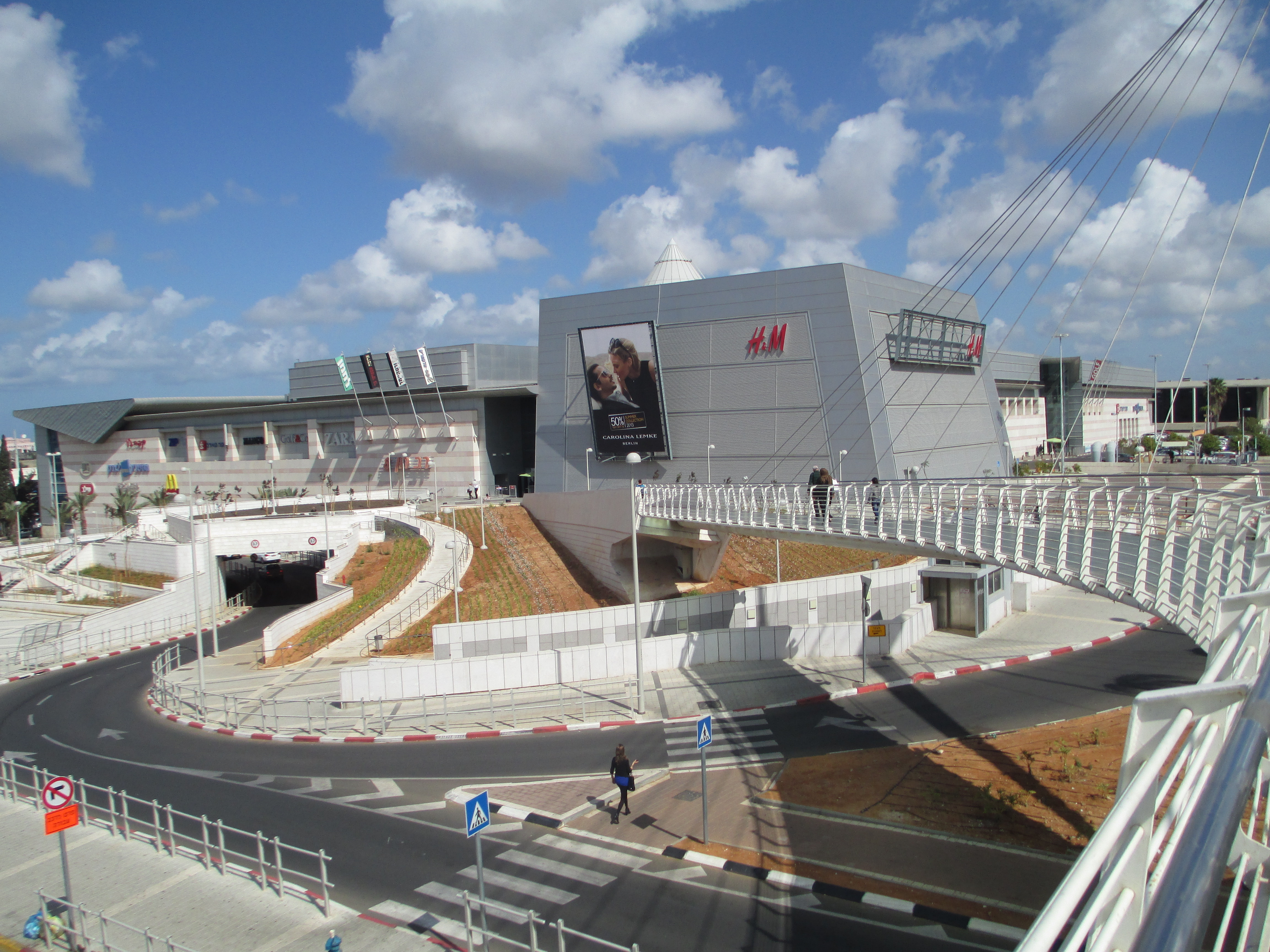 Grand Mall in Petah Tikva